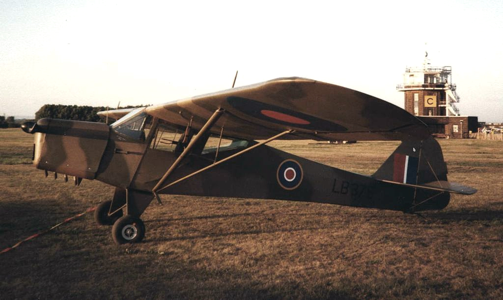 Auster I (Taylorcraft Plus D) G-AHGW at Barton aerodrome